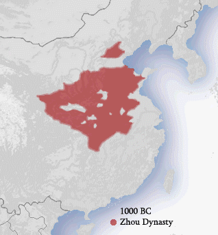 The approximate territory of the Zhou dynasty in China. Drawn by Ian Kiu. Derived from China_map.png by Nat.